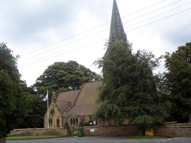 Holy Cross Church, Swainby T H Wyatt was commissioned by the Marquis of Ailesbury to design the Church, It is in the Early English style and constructed of locally quarried stone. The Church was consecrated on October 4th, 1877.